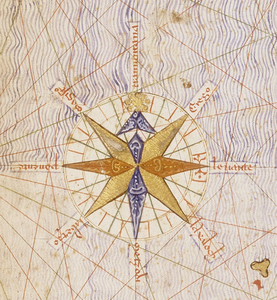 First compass rose depicted on a map, detail from the Catalan Atlas (1375), attributed to cartographer Abraham Cresques of Majorca.